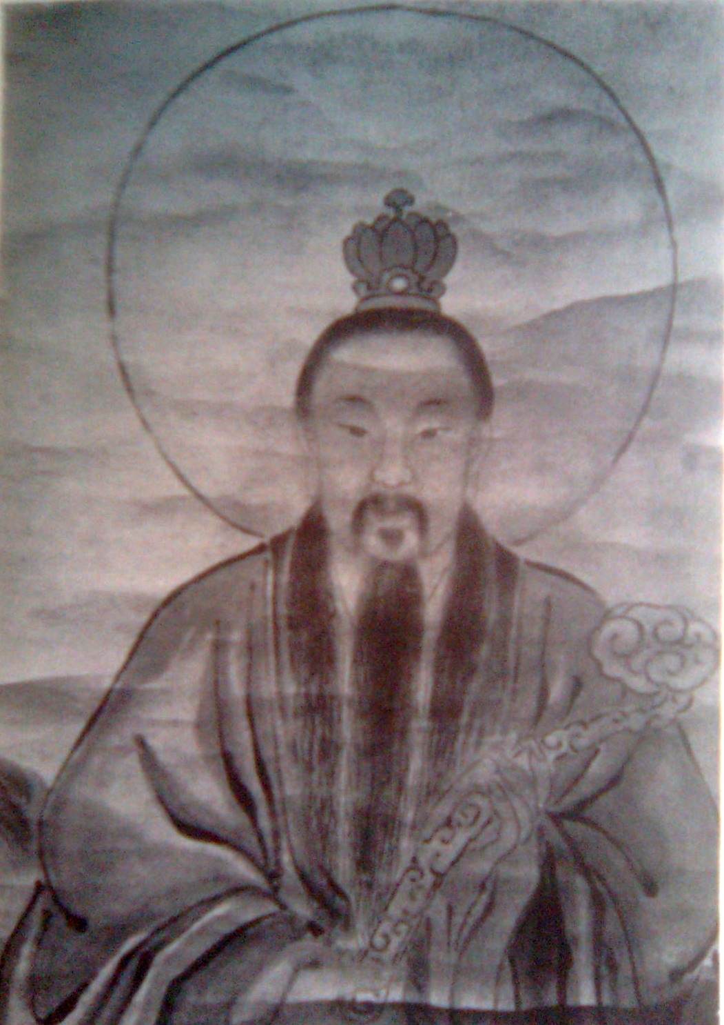 Taoistic cult image of the "true human being riding the wind" Liezi. This illustration was given as a present by the govenor of Shantung to German Sinologist Richard Wilhelm in 1911.